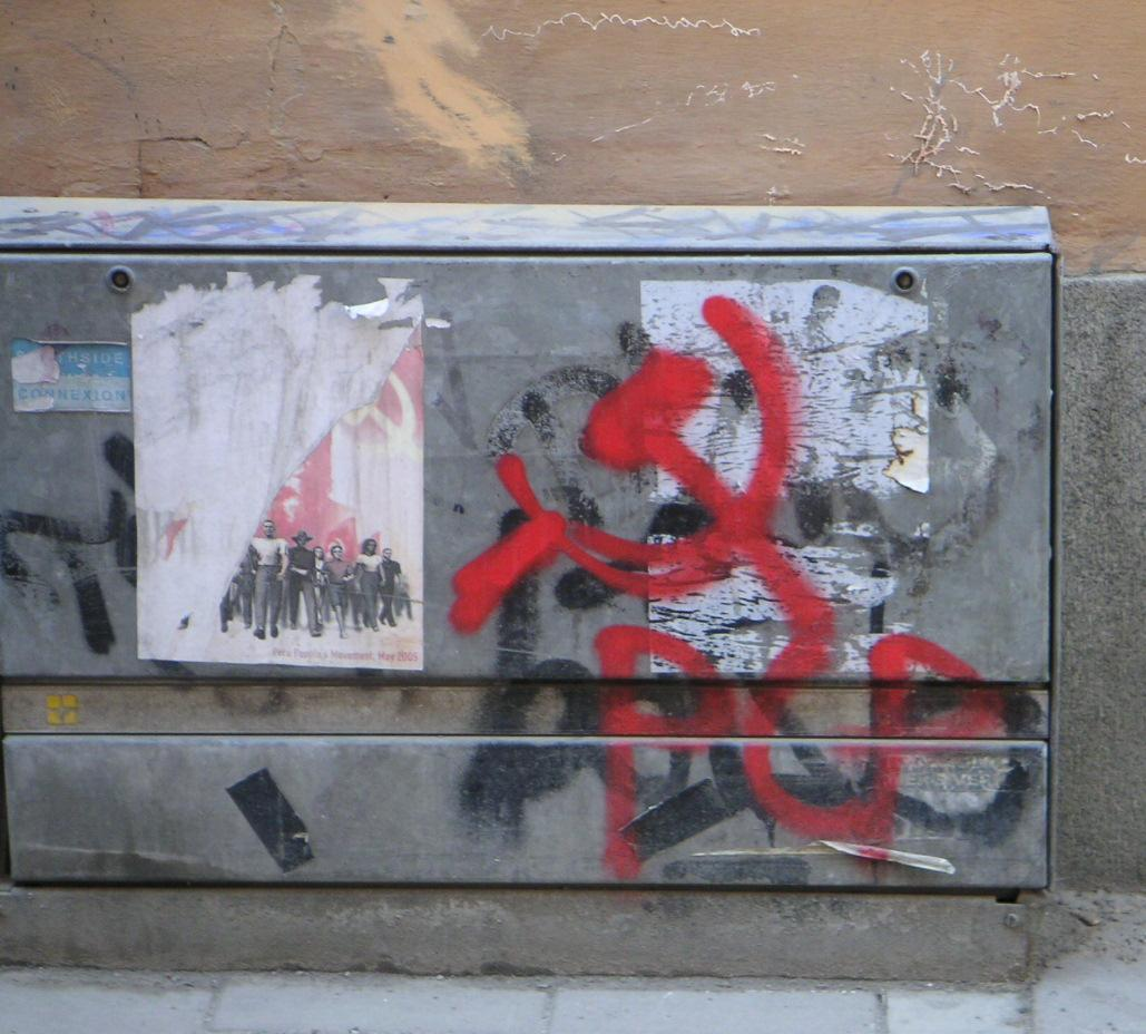 Photo: Soman